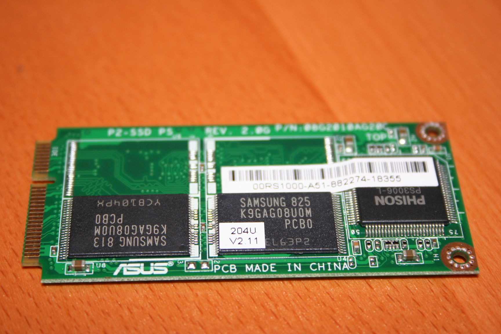 A 8Gb SSD card from the Asus Eee PC 901. Mini PCI Express